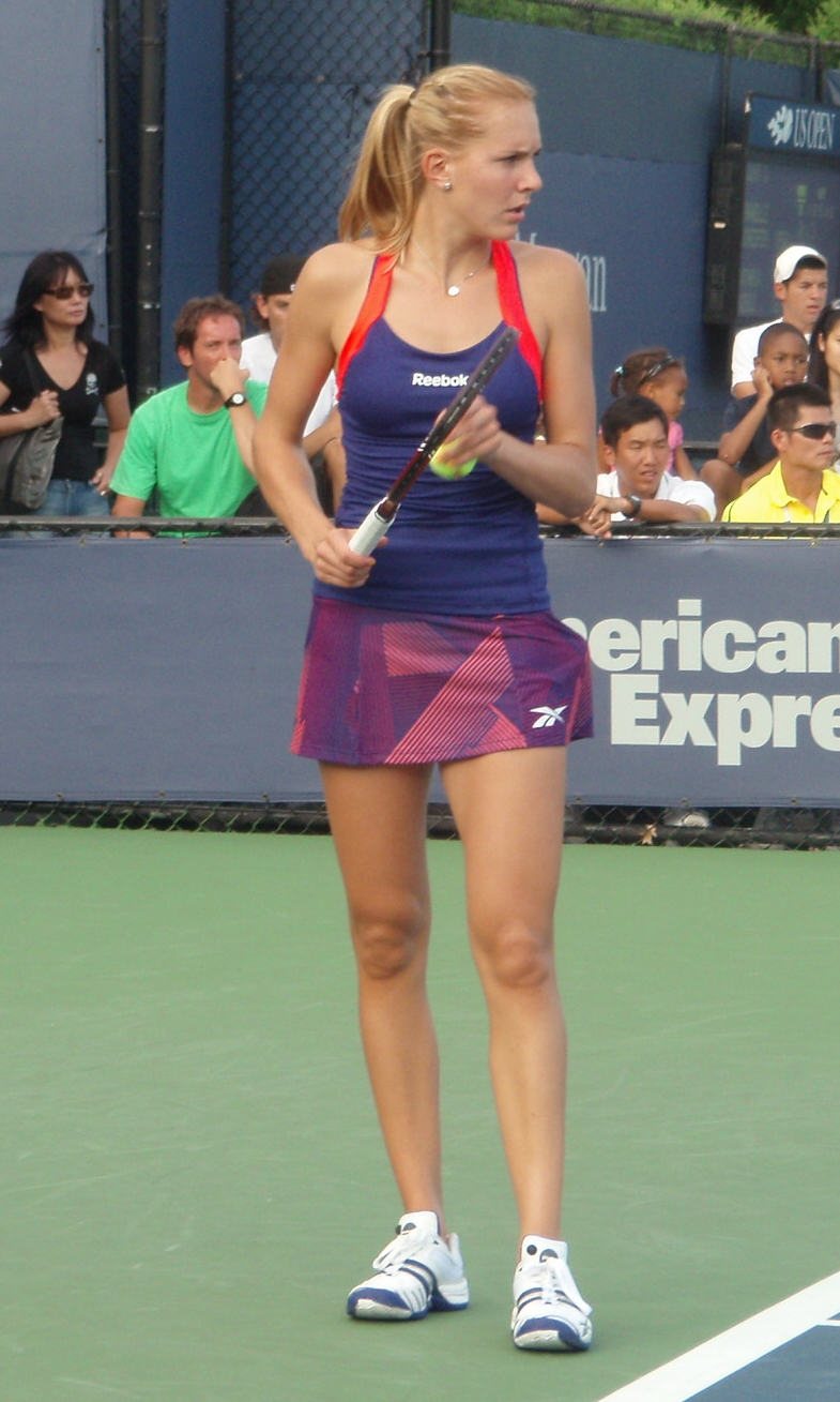 Nicole Vaidisova playing at the US Open 2009.